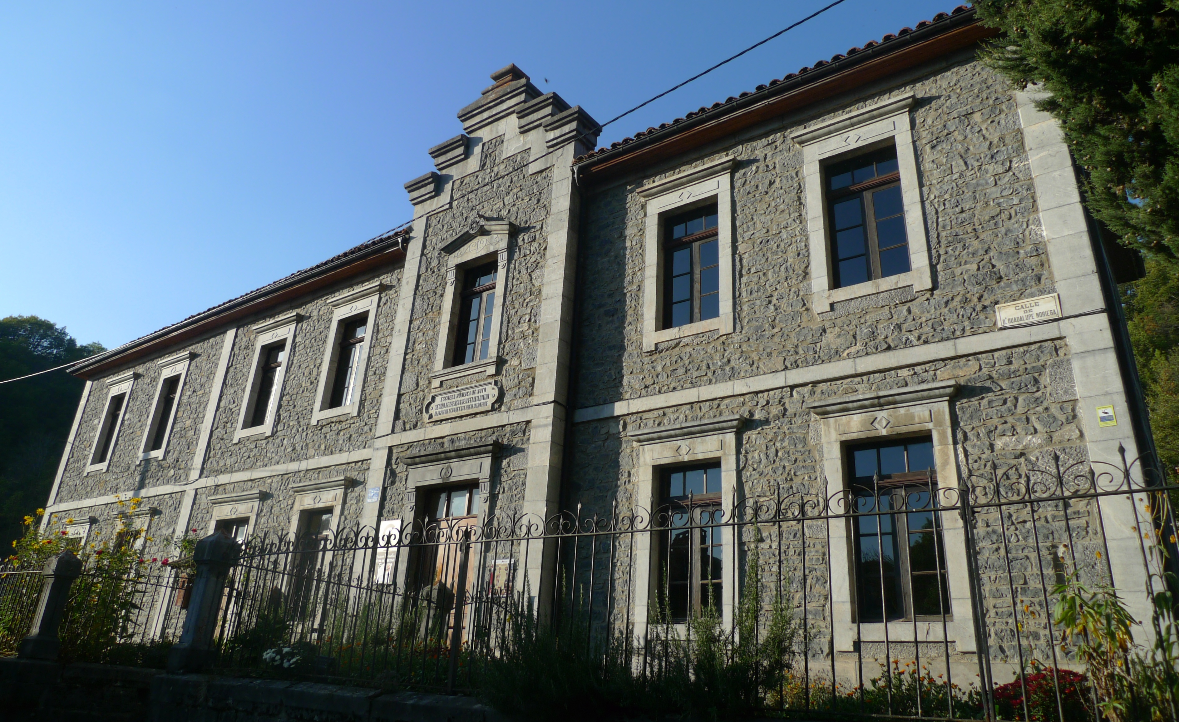 Soto de Sajambre School opened in 1906, Castilla León, Spain. Financed by Félix Martino Díez